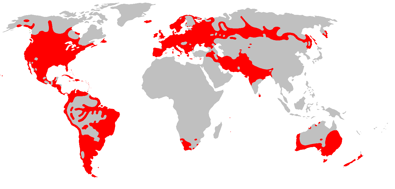 Distribution of Indo-European languages